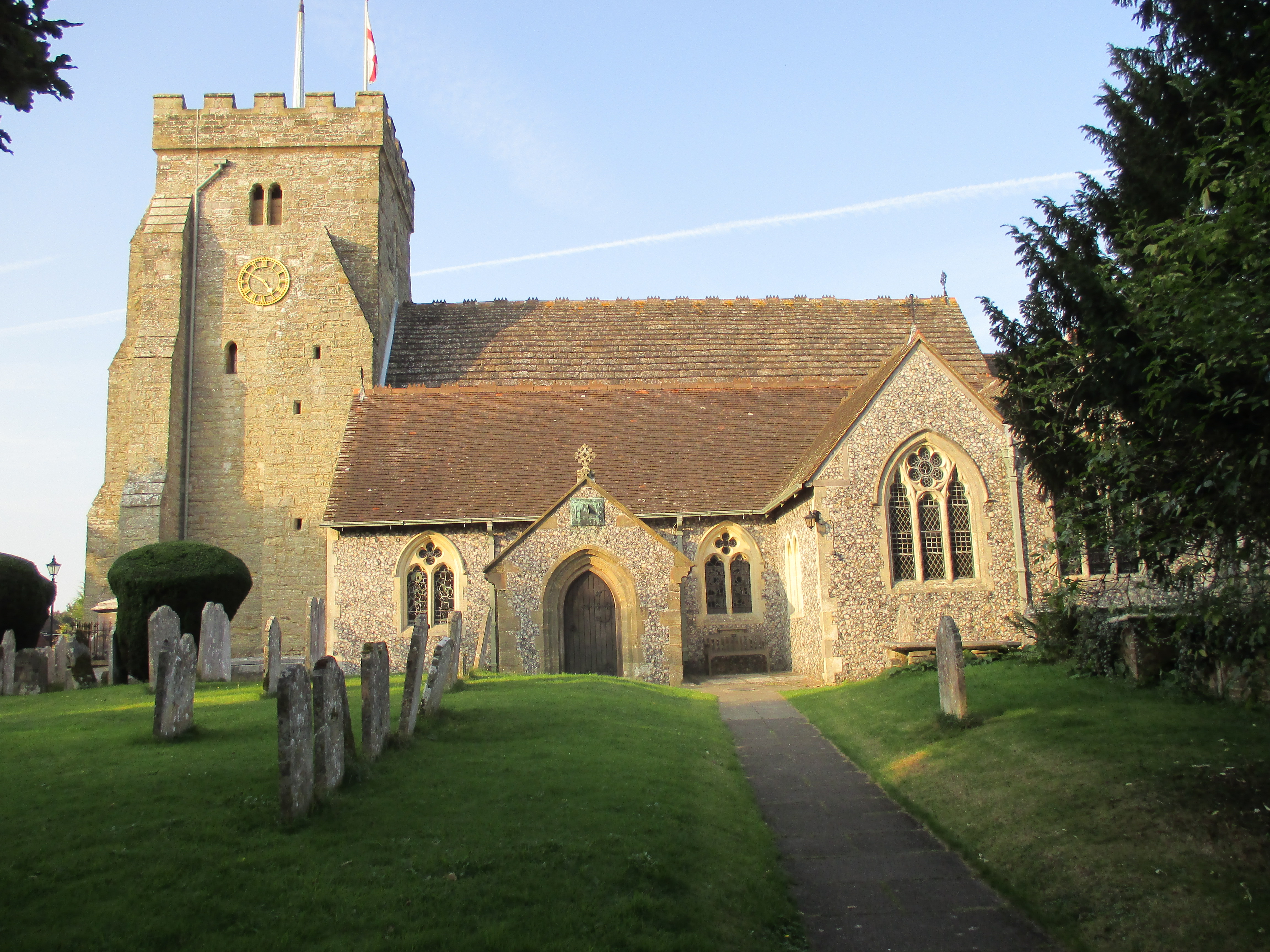 St. Peter's church, Henfield, West Sussex, photographed from the south.